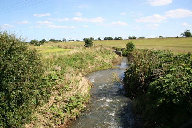 River Lymn Looking east near Partney Bridge